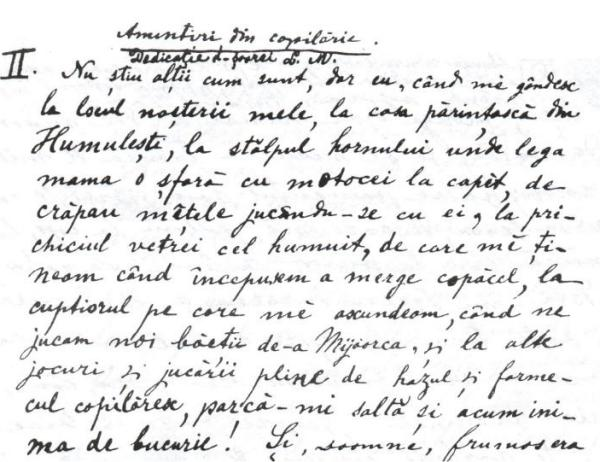 Opening page of Amintiri din copilărie ("Childhood Memories") manuscript, facsimile. Original kept by the Museum of Romanian Literature.